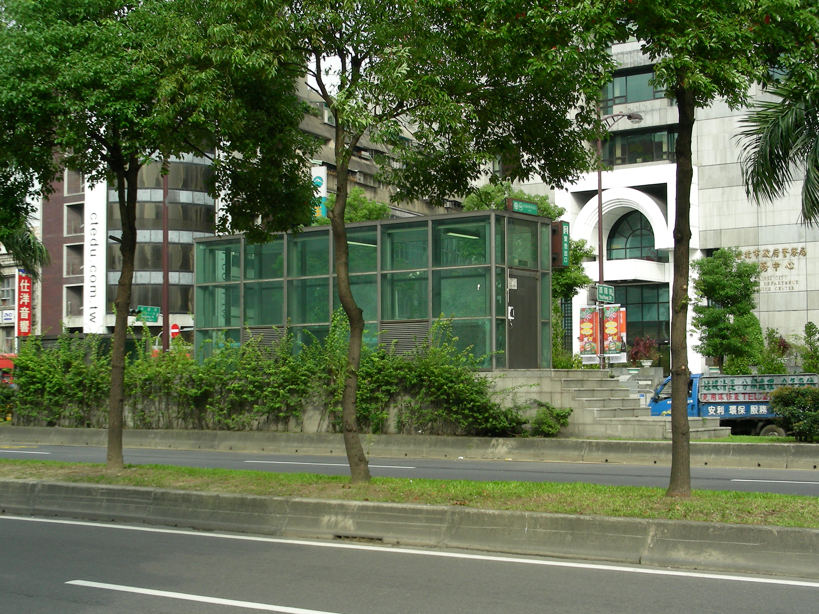 Exit 4A, TRA Simen Emergency Halt Station.